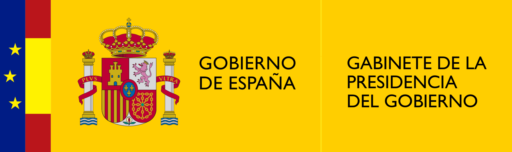 Logotype of the Cabinet of the Presidency of the Government